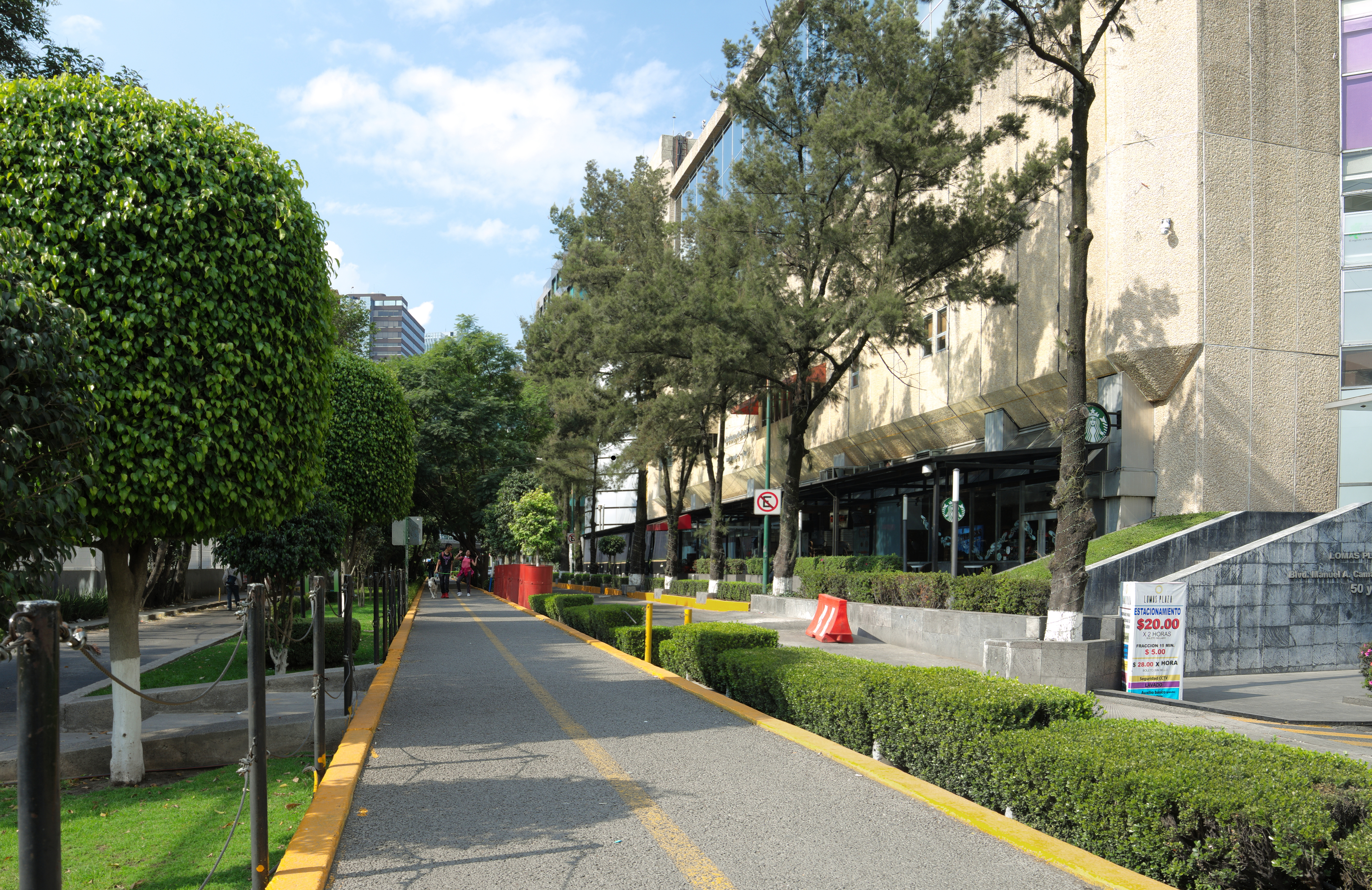 Bikeway on Ferrocarril de Cuernava stret in Mexico city